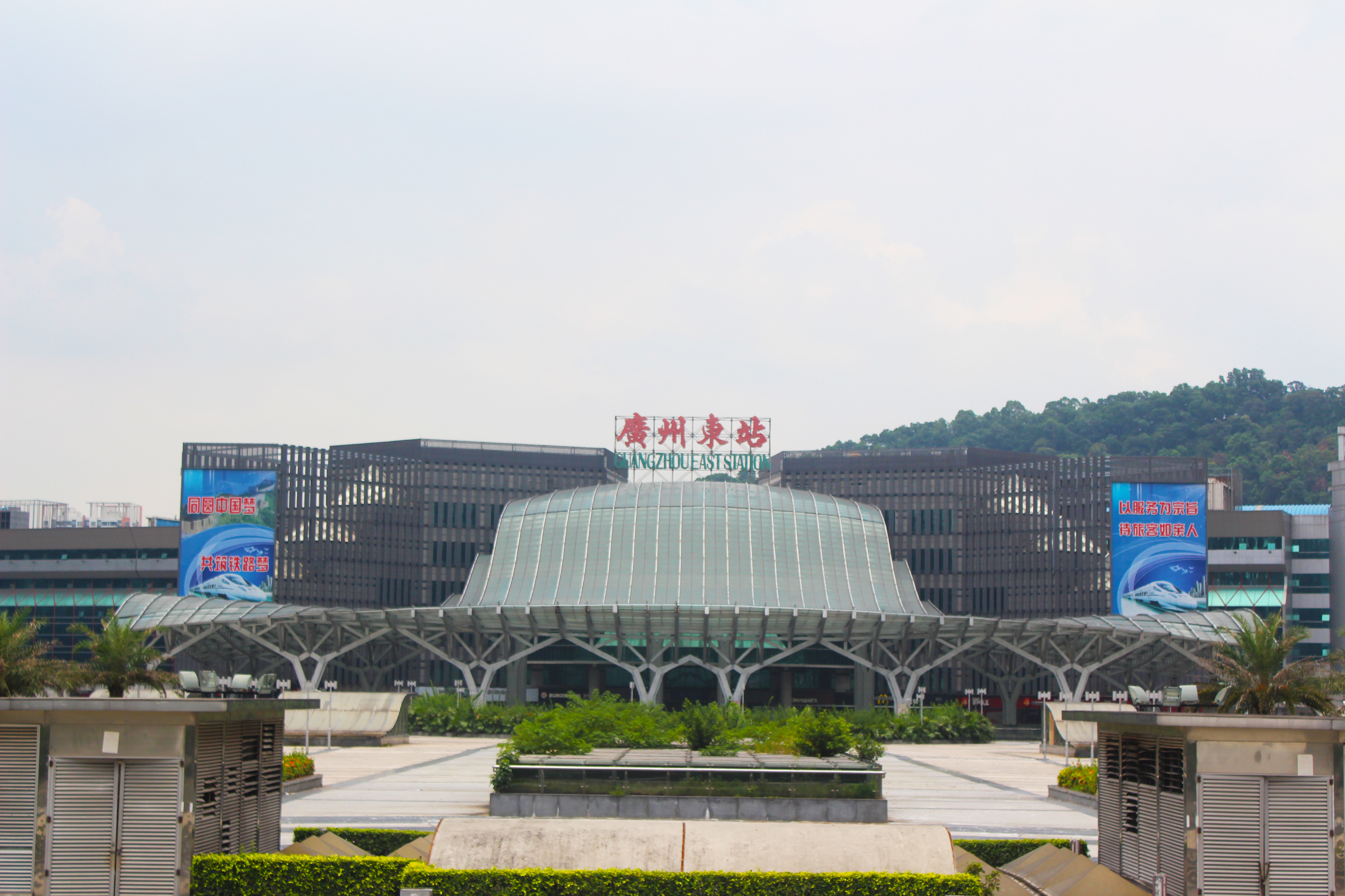 Guangzhou East Railway Station